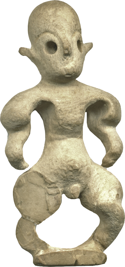 Dwarfs played an interesting role in Egyptian society since Predynastic times. Dwarfism-a genetic condition characterized by unusually short stature and shortened limbs-is frequently represented in Egyptian tomb reliefs and statues. Dwarfs were believed, because of their unusual appearance, to have supernatural powers and a special relation to the gods. Figurines of dwarfs were used as amulets and have been found in tombs as well as in ritual places. This figure represents a male dwarf. He has a large forehead, perforations for the eyes, and incised eye brows. The arms and bowed legs are twisted. The stomach is distended and there is a ridge across the buttocks that may have originally connected the figure to a seat.